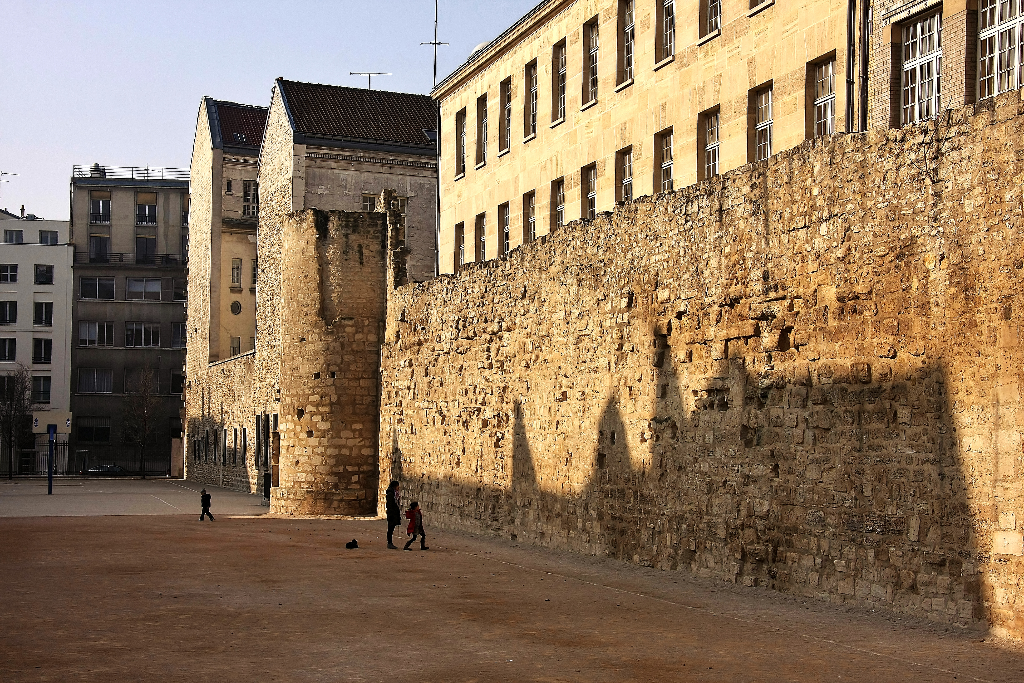 Enceinte of Philippe-Auguste, Paris.